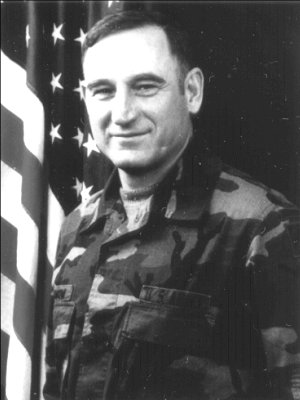 Official U.S. Army photo of Nicholas S. H. Krawciw as a Brigadier General, taken in 1984.